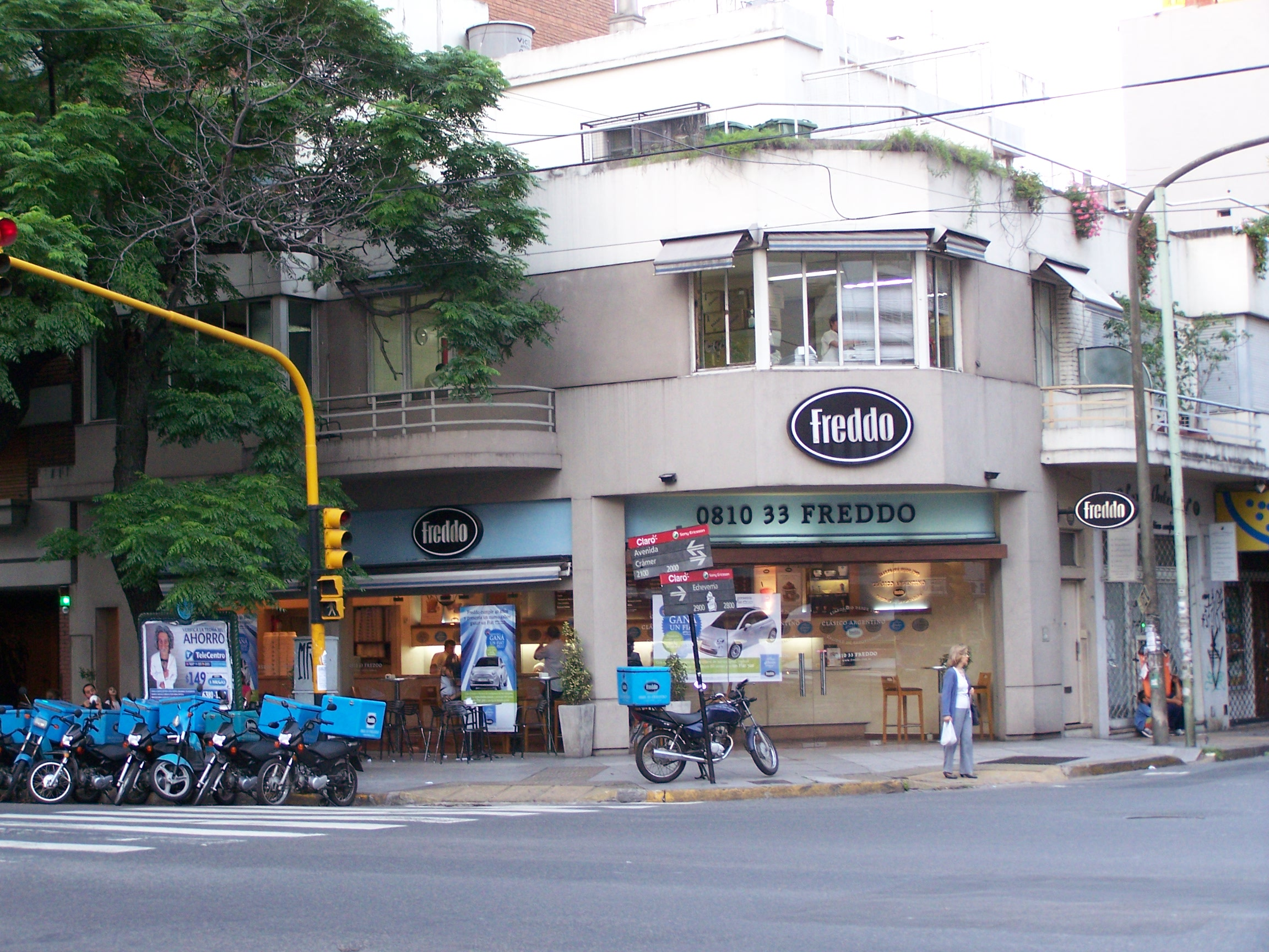 A Freddo ice cream shop on 2000 Cramer Avenue, in the Belgrano section of Buenos Aires. The original uploader's comments: Nichts geht über Freddo! Bisschen teuer, aber das Eis ist das beste der Welt! ("Nothing beats Freddo! A little pricey, but it's the best ice cream on earth!")